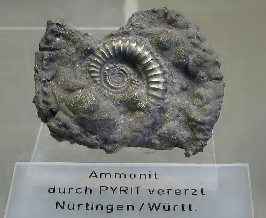 Ammonite consisting of Pyrite - Locality: Nürtingen, Württemberg - Exposed in the Mineralogical Museum, Bonn, Germany